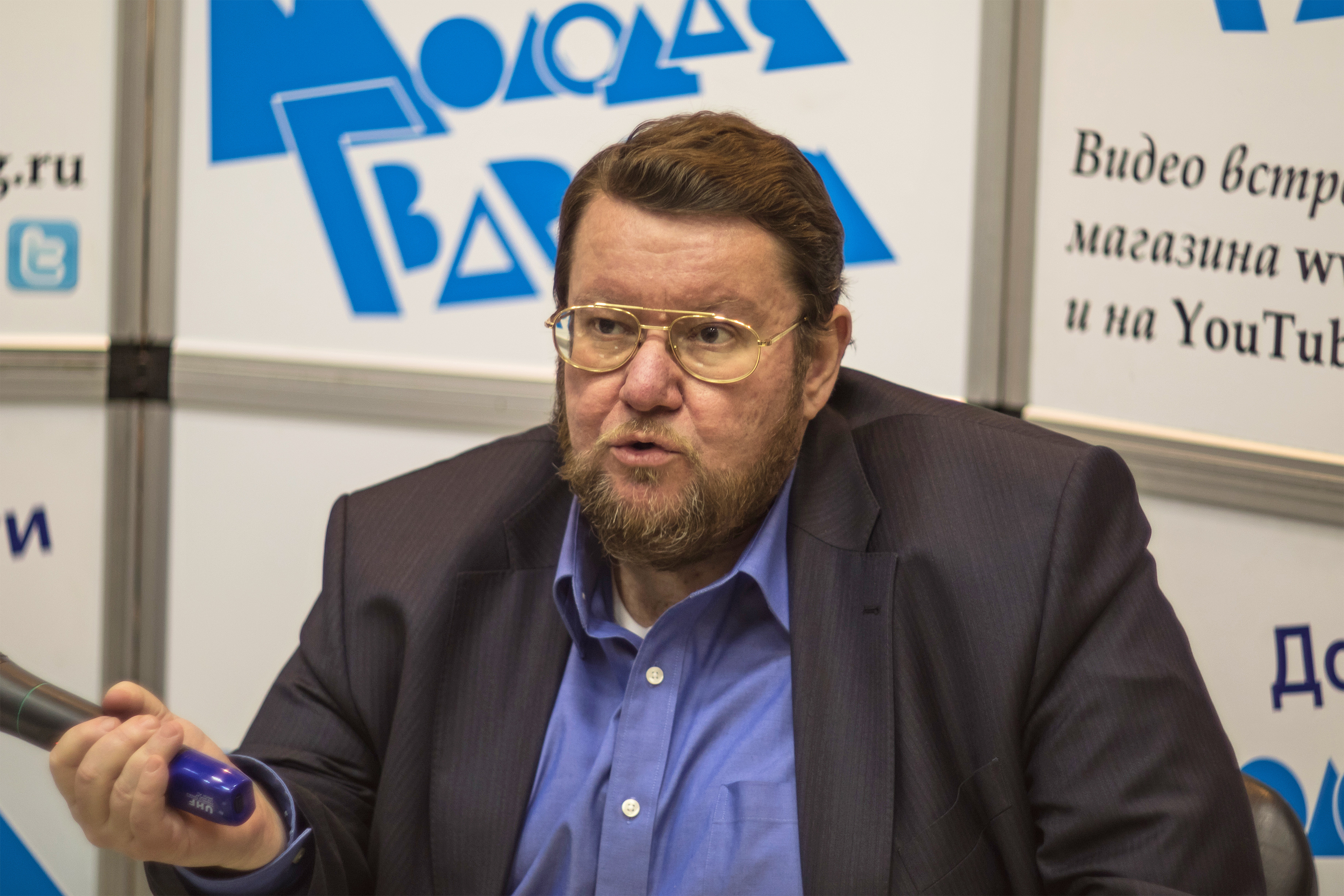 Photograph of Yevgeny Satanovsky, who is a Russian/Jewish author and economist.